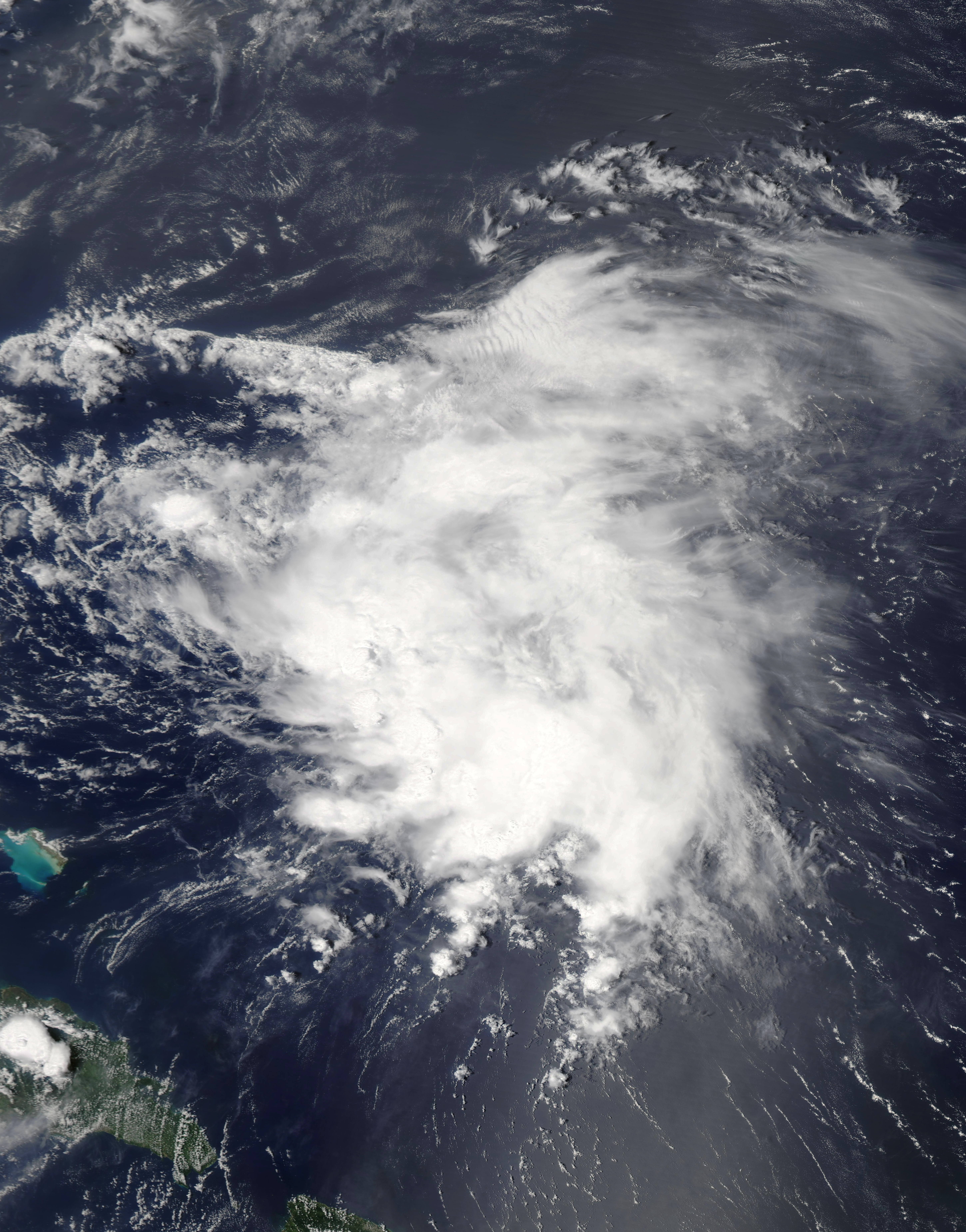 Tropical Storm Danny